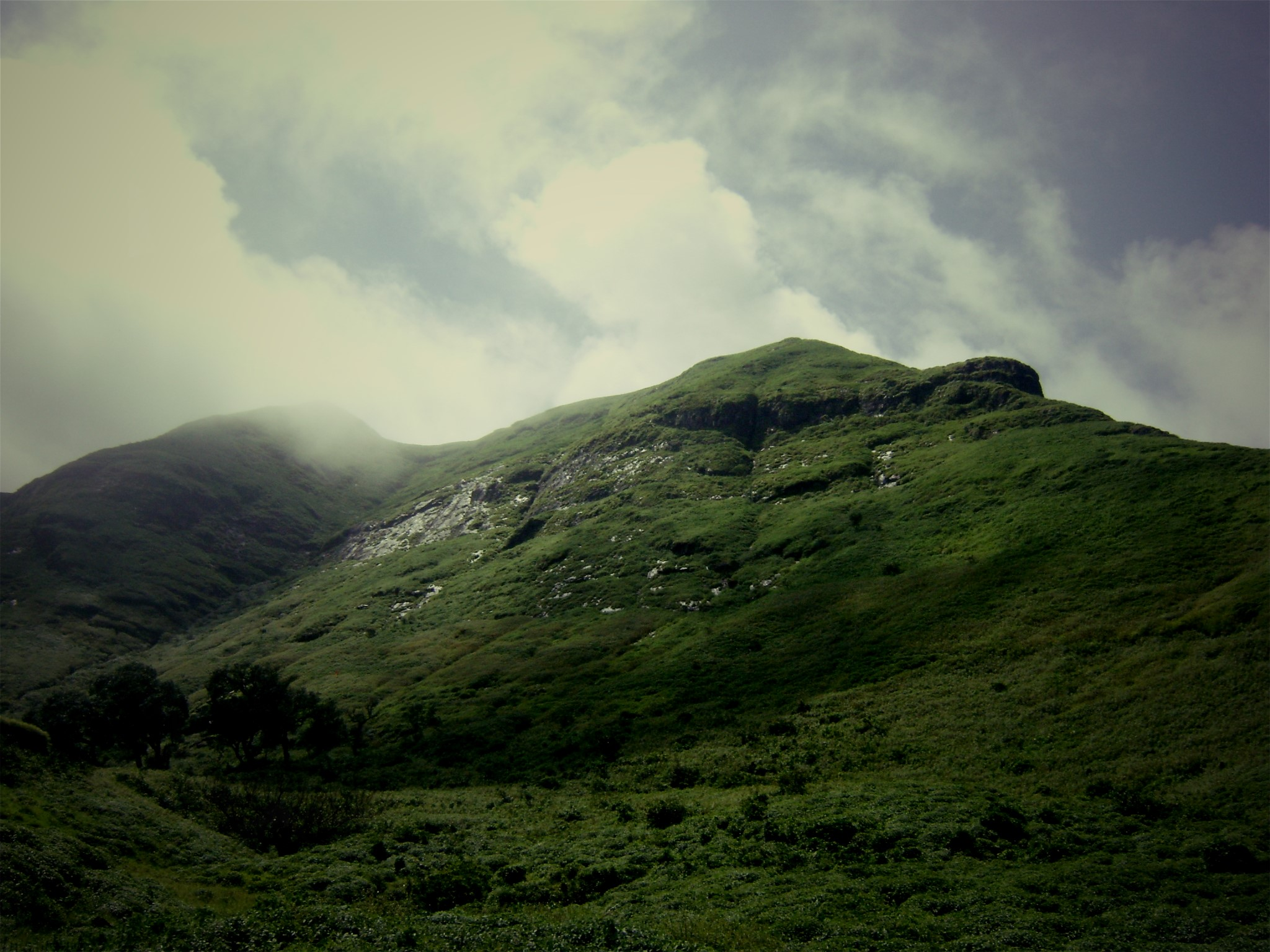 Brahmagiri Hill, The Tallest peak in Nashik city. Godavari River begins from this peak.